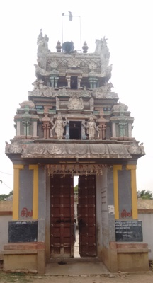 Anniyur agneesvarar temple அன்னியூர் அக்கினீசுவரர் கோயில்